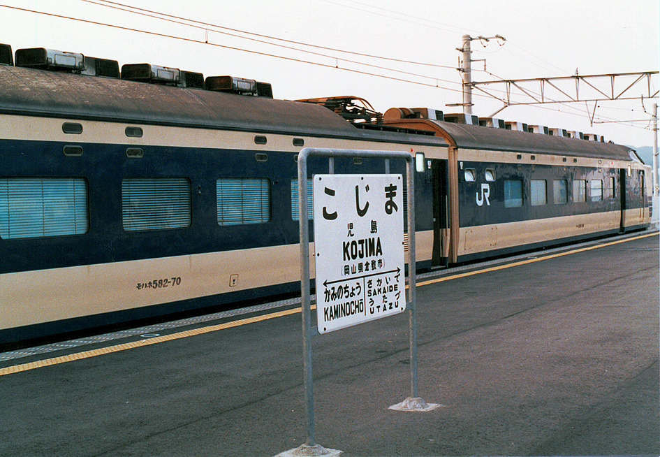 JR West 583 series EMU for the Expo Train Washu at Kojima Station